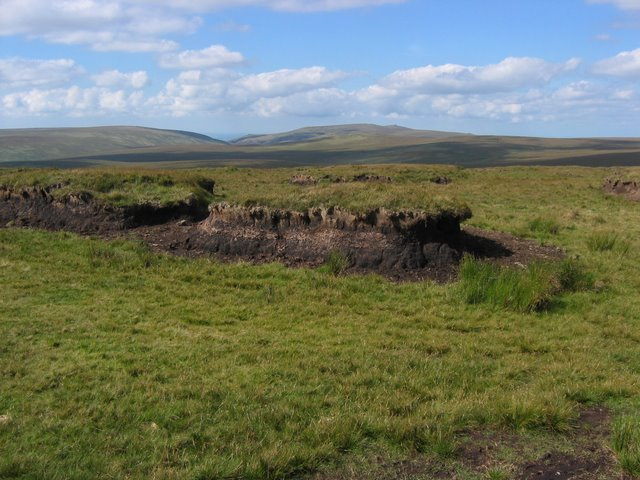 Cut Hill Here is the roof of Dartmoor, from the top you can see right all across Dartmoor, it is also estimated that here is the highest concentration of letterboxes, plugged into the sides of the cut.